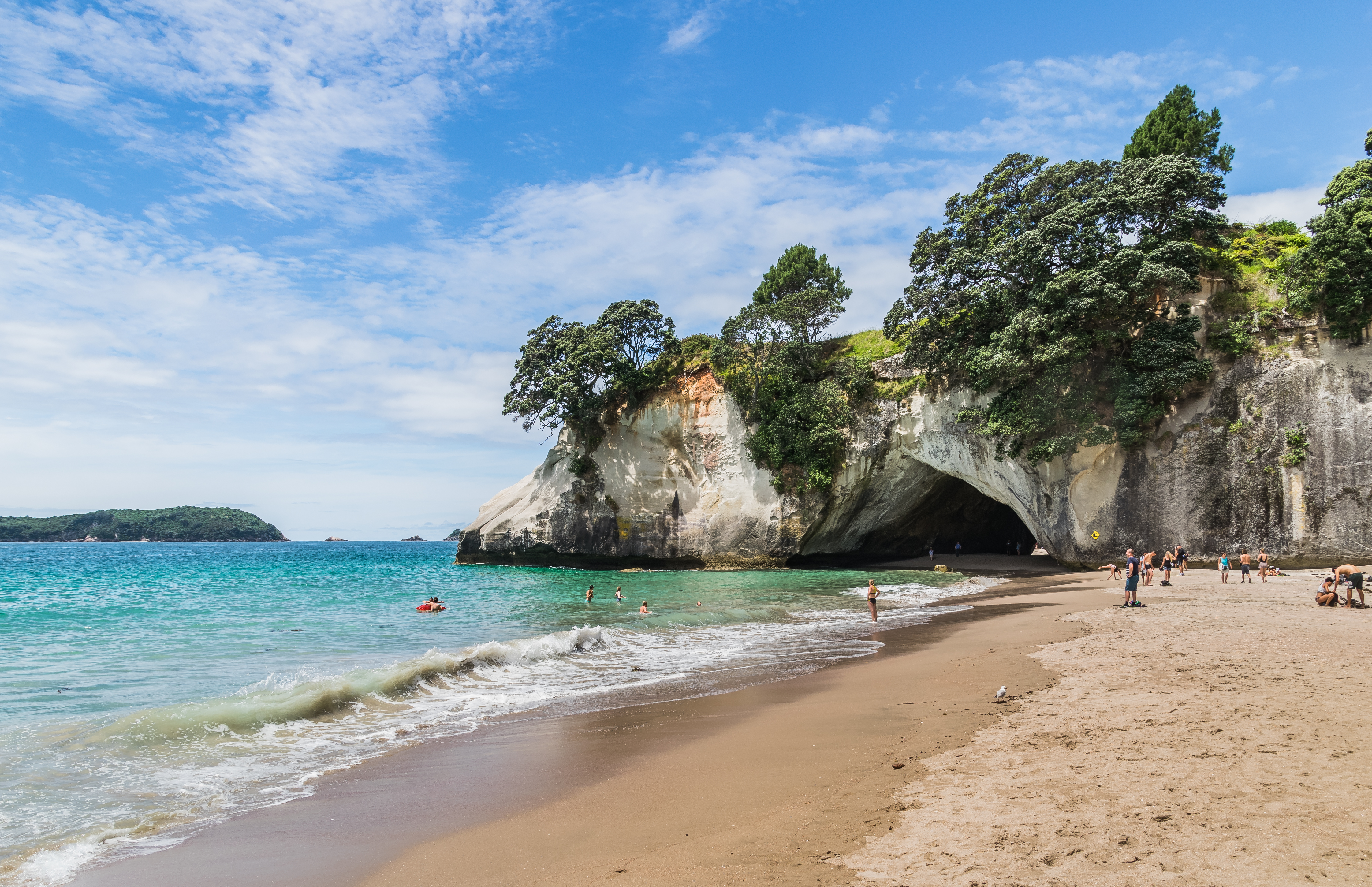 Cathedral Cove in Te Whanganui-A-Hei Marine Reserve on Coromandel Peninsula in Waikato Region, North Island of New Zealand